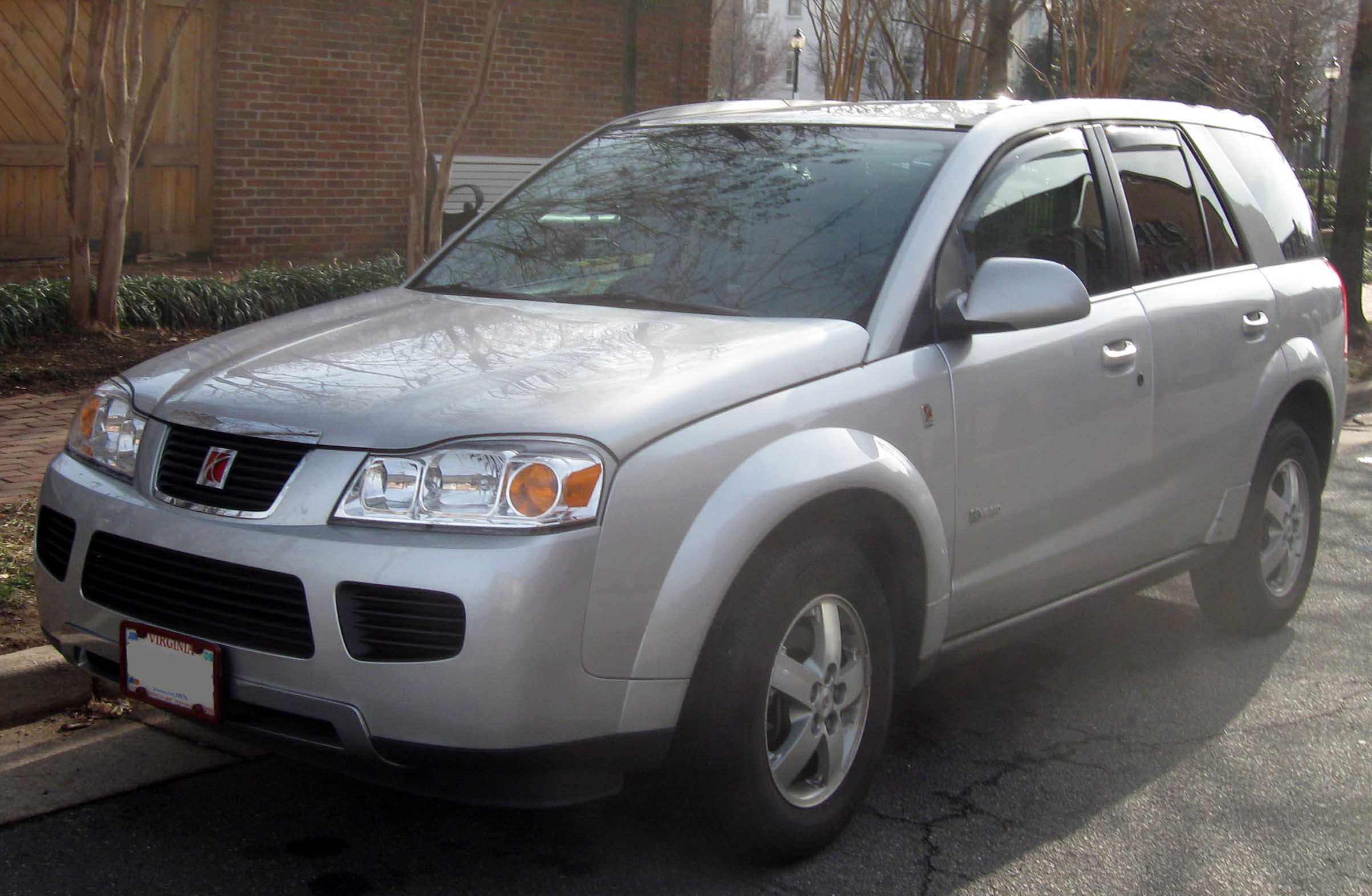 2007 Saturn Vue photographed in Alexandria, Virginia, USA.